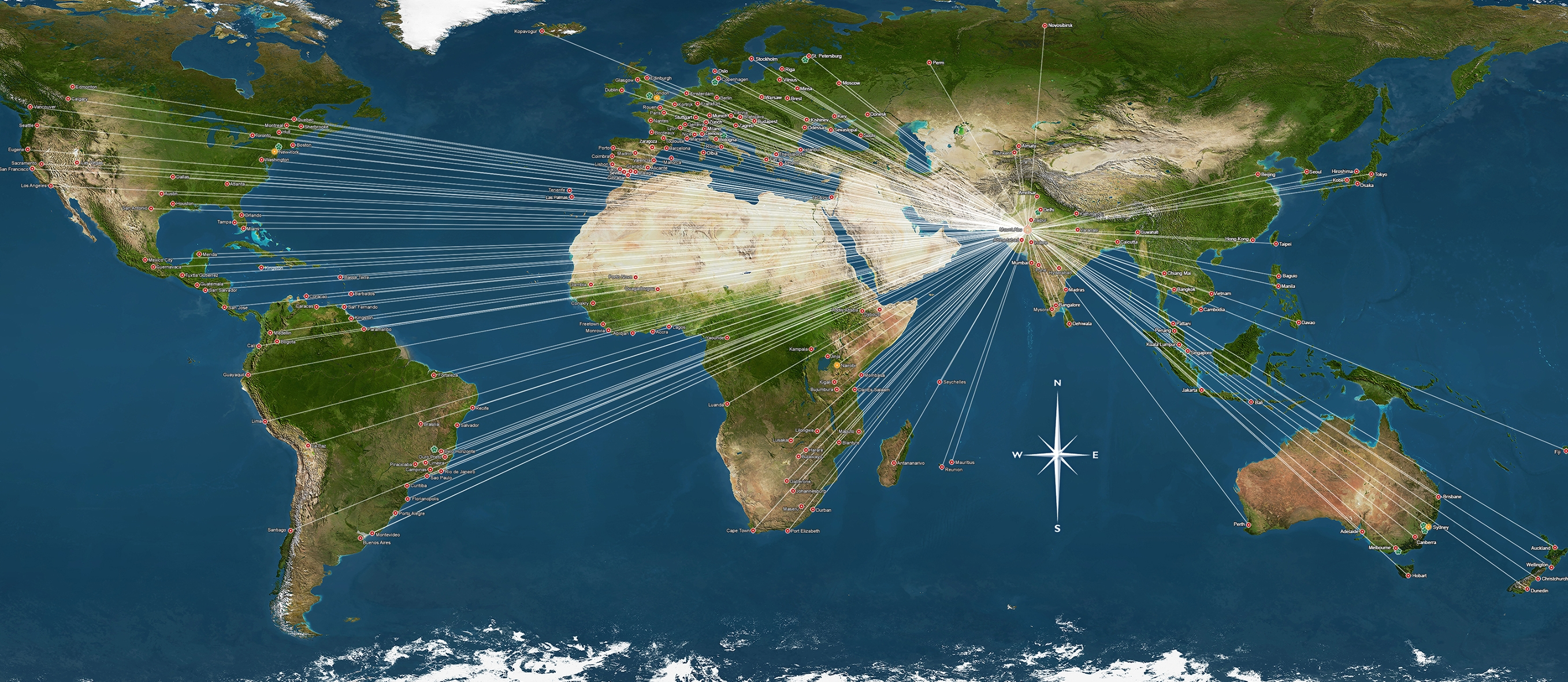 A map depicting the expansion of the BKWSU from its Indian origin to the establishment of various centres and retreat centres around the globe.